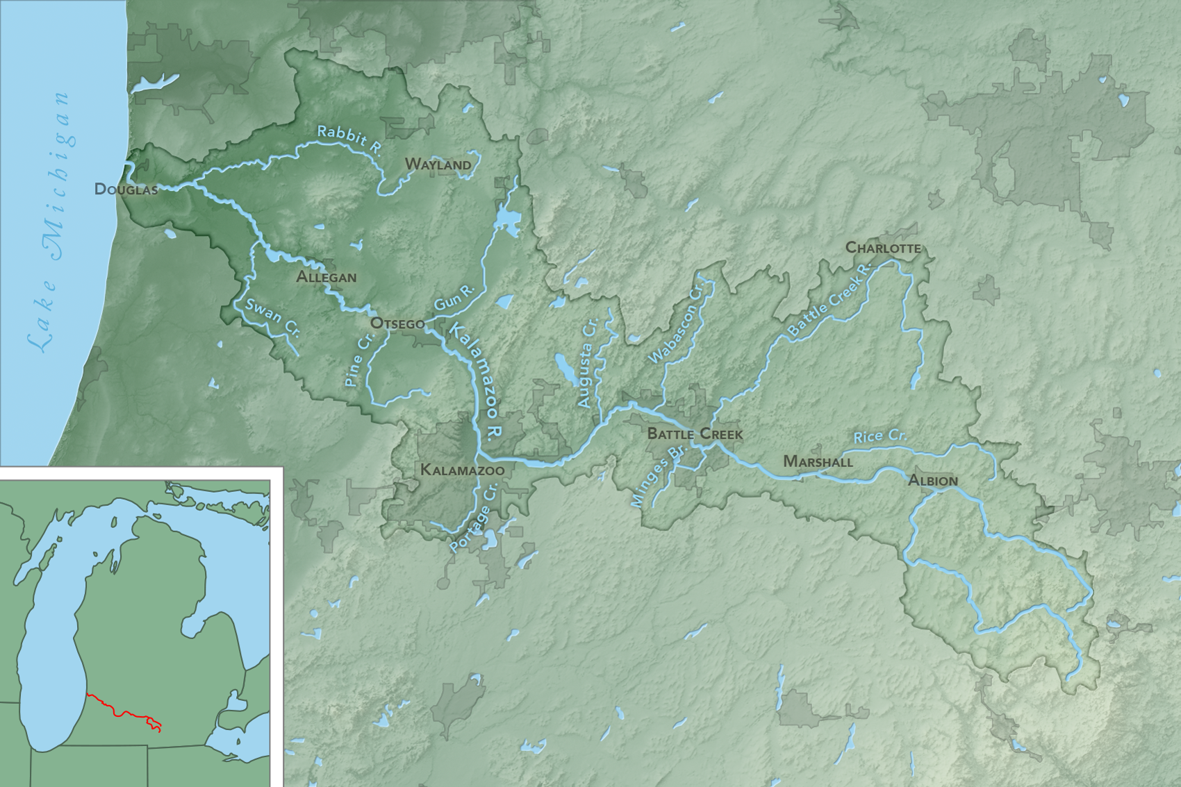 A map of the Kalamazoo River, its tributaries, and watershed. Lambert Conformal Conic. CM: -85.35, SP: 42.6, 42.1 Elevation from NED; Water & Urbanized Areas from National Atlas. Inset states from Natural Earth.